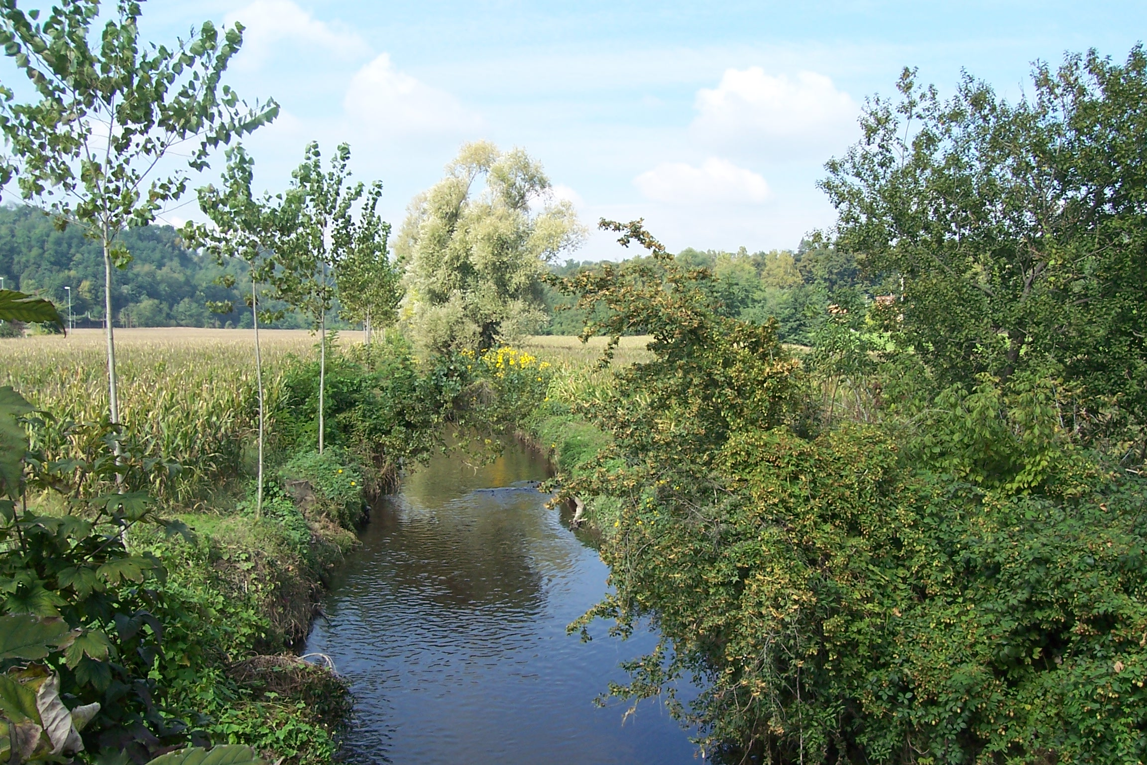 The Seveso River to Carimate(Como)